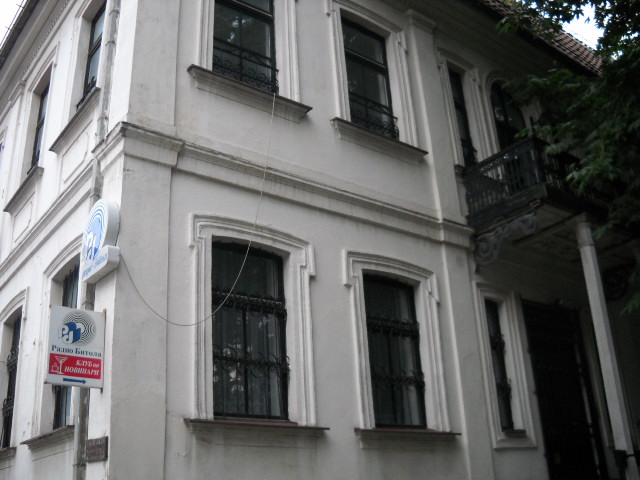 An image of the radio Bitola building (Republic of Macedonia)